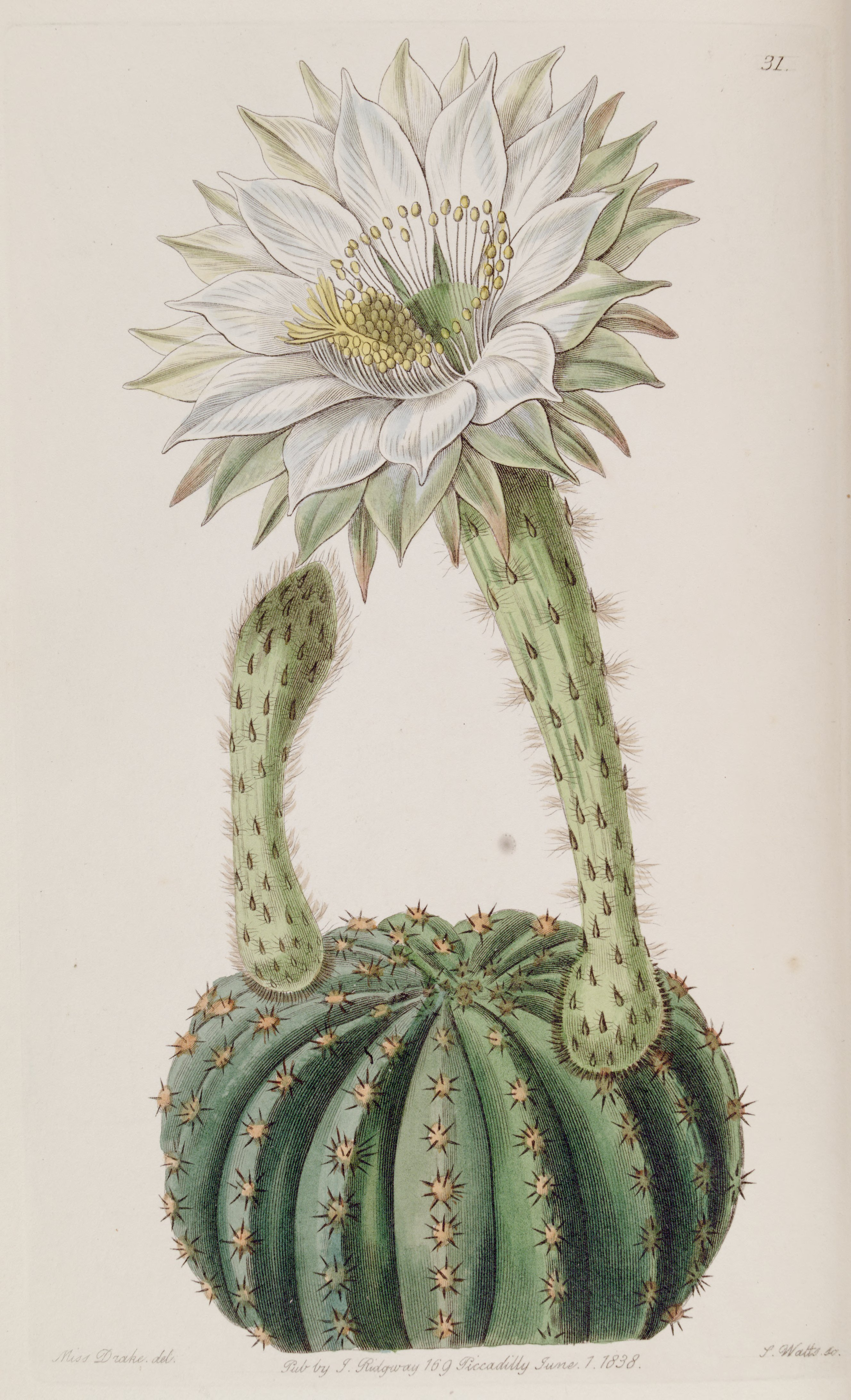 Echinopsis eyriesii